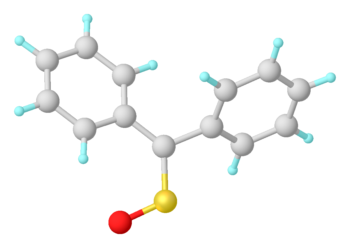 structure of Ph2C=S=O